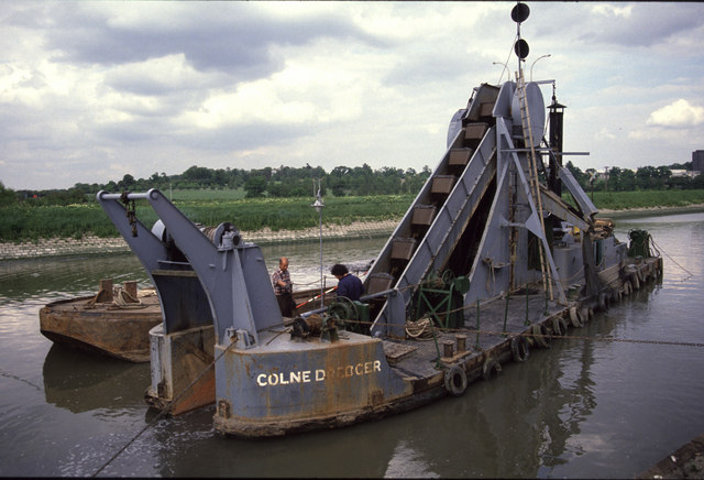 Colne Dredger, The Hythe, Colchester